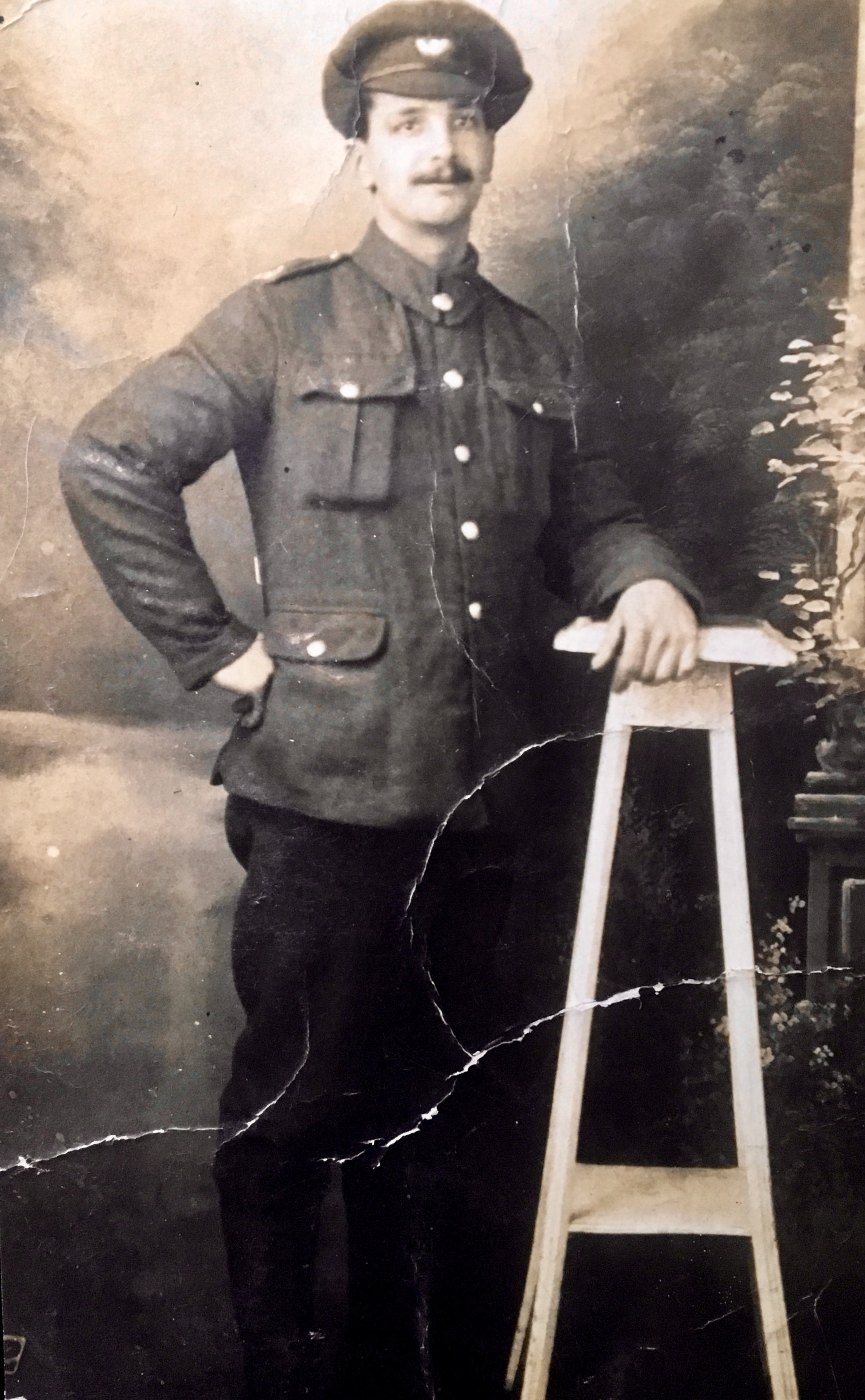 Photograph of Laurence Calvert